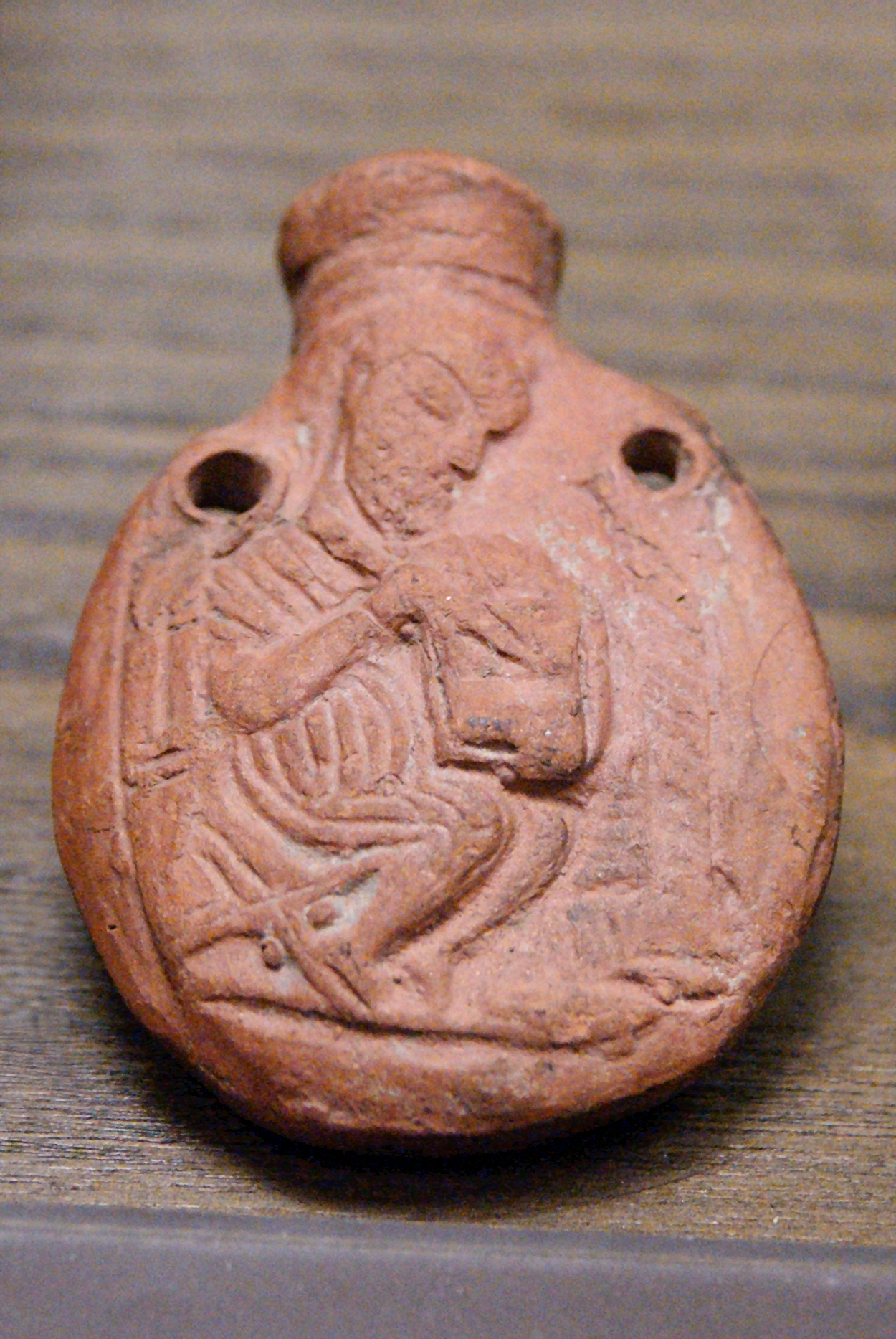 Pilgrim flask representing evangelists.